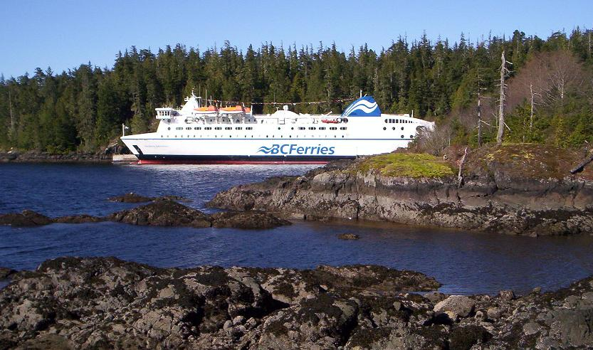 M/V Northern Adventure at Port Hardy, BC. Photo taken on March 30th, 2007, one day prior to maiden voyage.